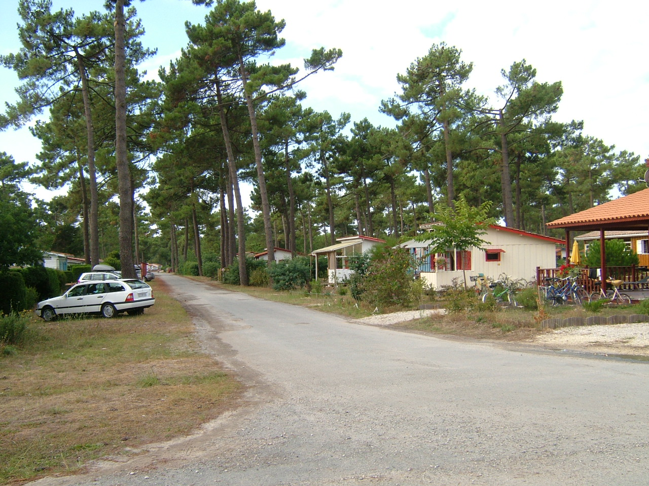 CHM-Montalivet (naturist resort) (CHM for "Centre Hélio-Marin", "center of sun and sea") is the world's first naturist holiday resort located south of Montalivet, in Vendays-Montalivet, France. Village Atlantique